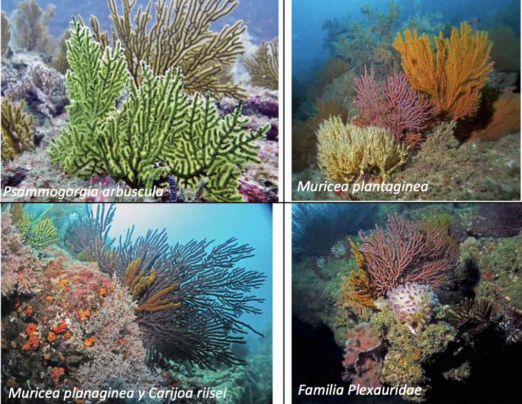 Psammogorgia arbuscula, Muricea plantaginea, Muricea plantaginea & Carijoa riisei , Familia Plexauridae Muricea plantaginea & Muricea fruticosa